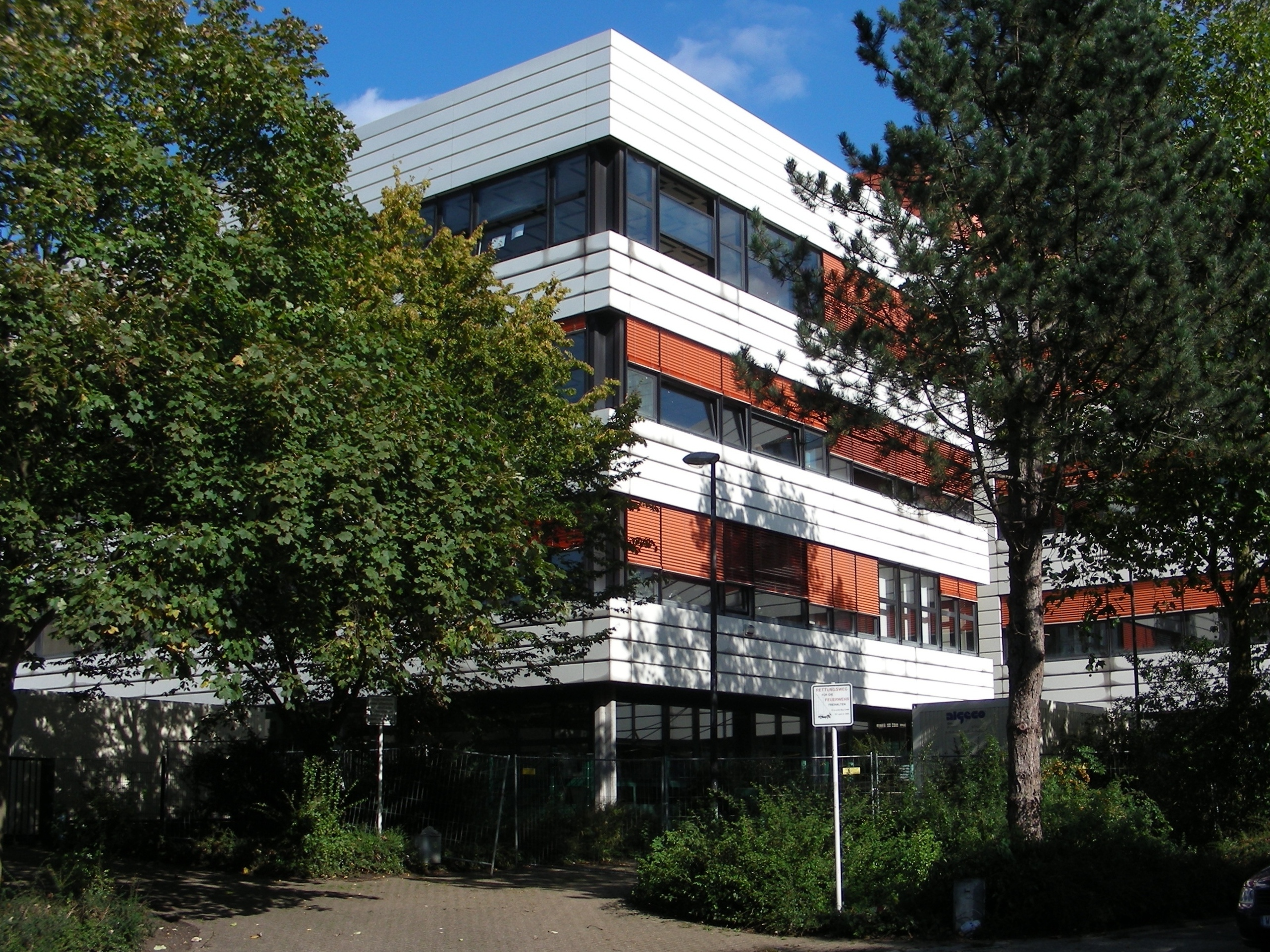 Carl-Duisberg-Gymnasium in Schulzentrum Ost, Wuppertal, Germany - Exterior